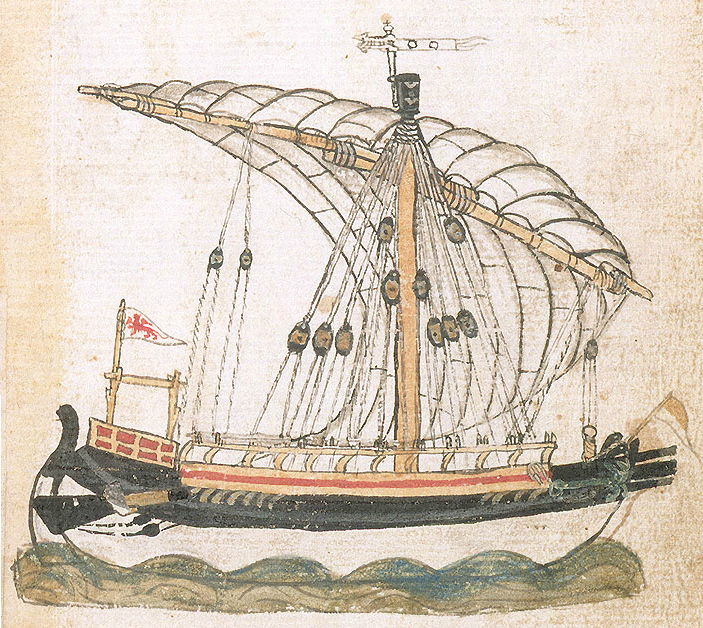 Illustration of a 15th century trade galley from a manuscript by Michael of Rhodes (1401-1445)